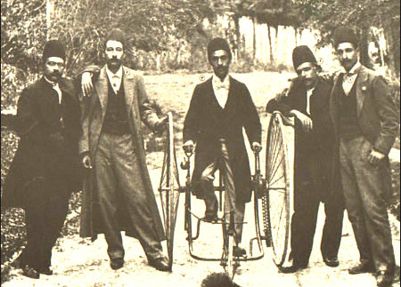 Old picture of a tricycle from Iran.